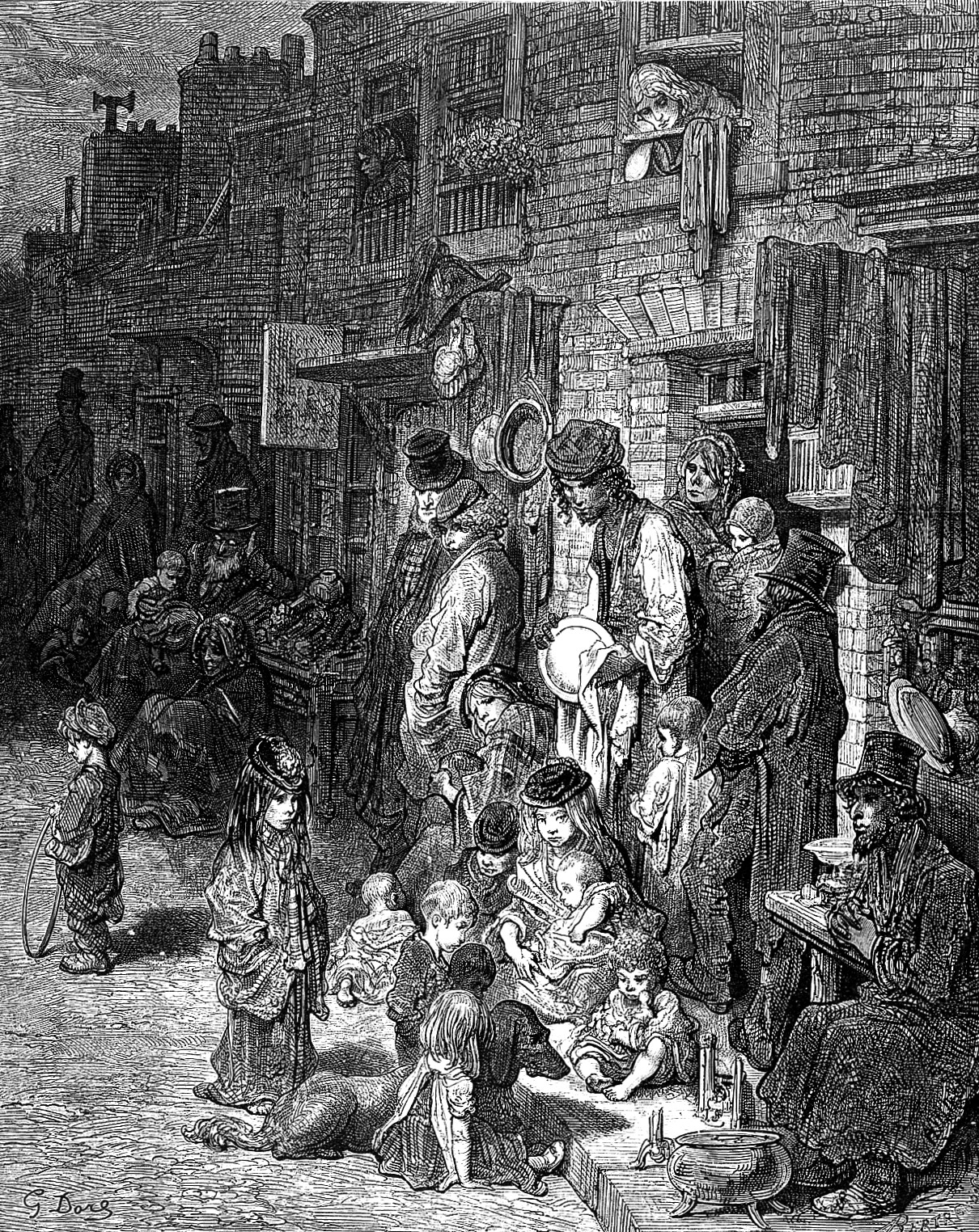 Wentworth st, Whitechapel Wellcome Images Keywords: east london 19th century; Slums; whitechapel; Poverty; Poverty Areas; Gustave Doré; Gustave Doré